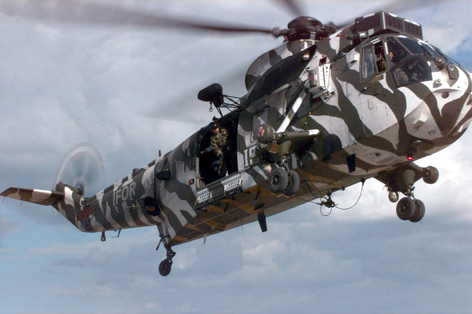 An Royal Navy Westland Sea King HC.4 helicopter carrying British Prime Minister John Major lands at the helo-pad on Ilidza Compound in Sarajevo, Bosnia and Herzegovina, during operation Joint Endeavour on 24 May 1996. The Sea King was assigend to the NATO Implementation Forces (IFOR) in Bosnia and Herzegovina.